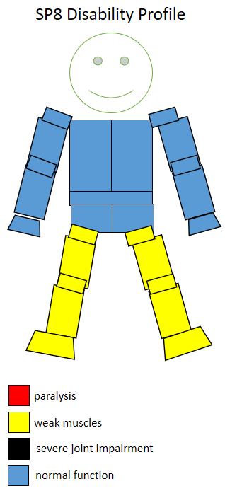 Another disability type for F8 / SP8 classification.